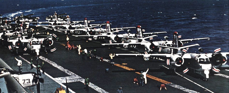 U.S. Navy aircraft of Anti-Submarine Carrier Air Group 53 (CVSG-53) getting ready for a launch in the early 1960s from the aircraft carrier USS Kearsarge (CVS-33). Most planes are Grumman S-2F Tracker of Anti-submarine Squadrons VS-21 "Lightning Bolts", and VS-29 "Tromboners". A single Douglas EA-1E Sykraider of Airborne Early Warning Squadron VAW-11 Det. R "Early Eleven" is visible on the left (RR-73). All squadrons were assigned to CVSG-53 aboard the Kearsarge for a deployment to the Western Pacific and Vietnam from 19 June to 16 December 1964.